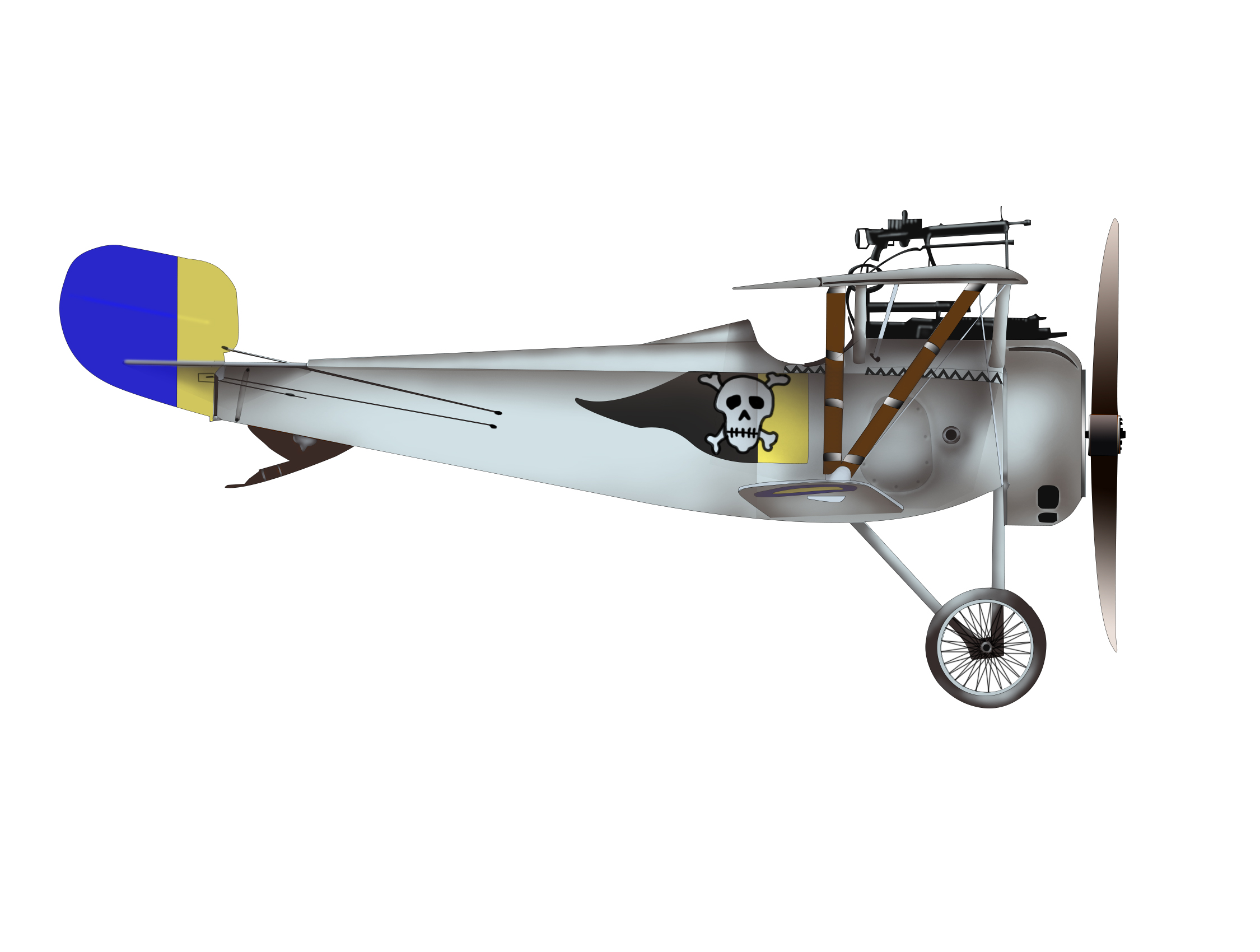 Nieuport-17C Ukrainian Galician Army , February 1919